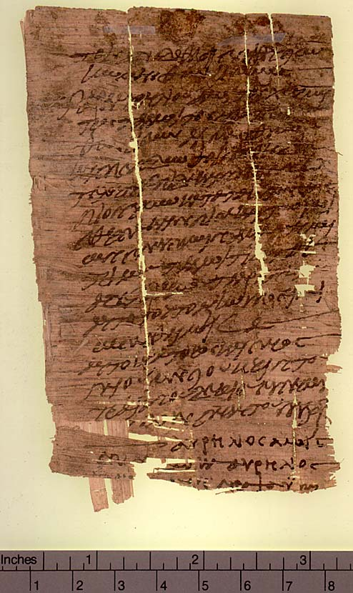 A Roman libellus, a certificate that the owner had sacrificed to the Gods. Papyrus found in Oxyrhynchus in Egypt and dated to 250 AD. Oxyrhynchus Papyri vol.LVIII no.3929